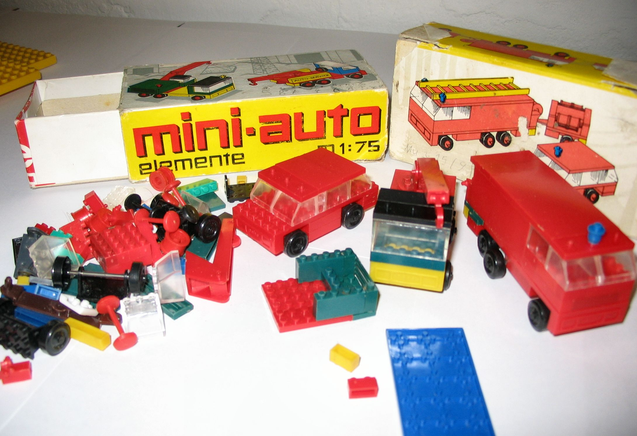 PEBE mini bricks, fire engines.